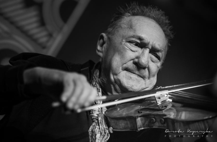 Michał Urbaniak (born January 22, 1943) is a Polish jazz musician who plays violin, lyricon, and saxophone. His music includes elements of folk music, rhythm and blues, hip hop, and symphonic music. Concert on March 5, 2019 at the Guido Mine, Zabrze as part of the LOTOS Jazz Festival at 21. Bielska Zadymka Jazzowa.